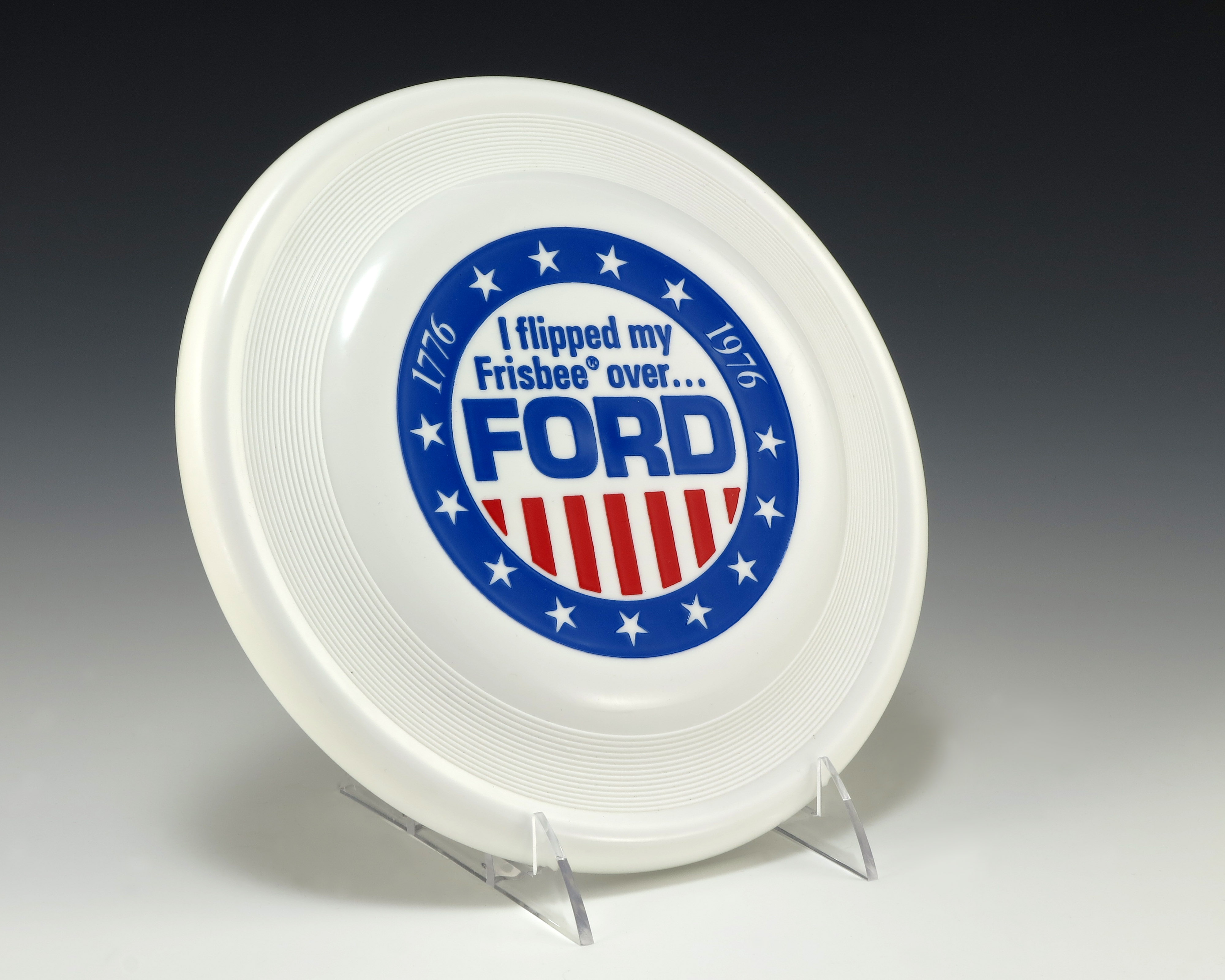 White colored campaign flying disc or "Frisbee" with a stars and stripes design at center that reads, “I Flipped my Frisbee over… Ford.” The above disc is one of 100 identical discs given to President Gerald R. Ford at the 1976 Republican National Convention. Advertising executive Bob Gardner, of San Francisco based Gardner Communications, worked on former President Gerald Ford's 1976 advertising team and was best known for award-winning creations for such corporate clients as Fairmont Hotels, Revo brand sunglasses, and Frisbees.[1]